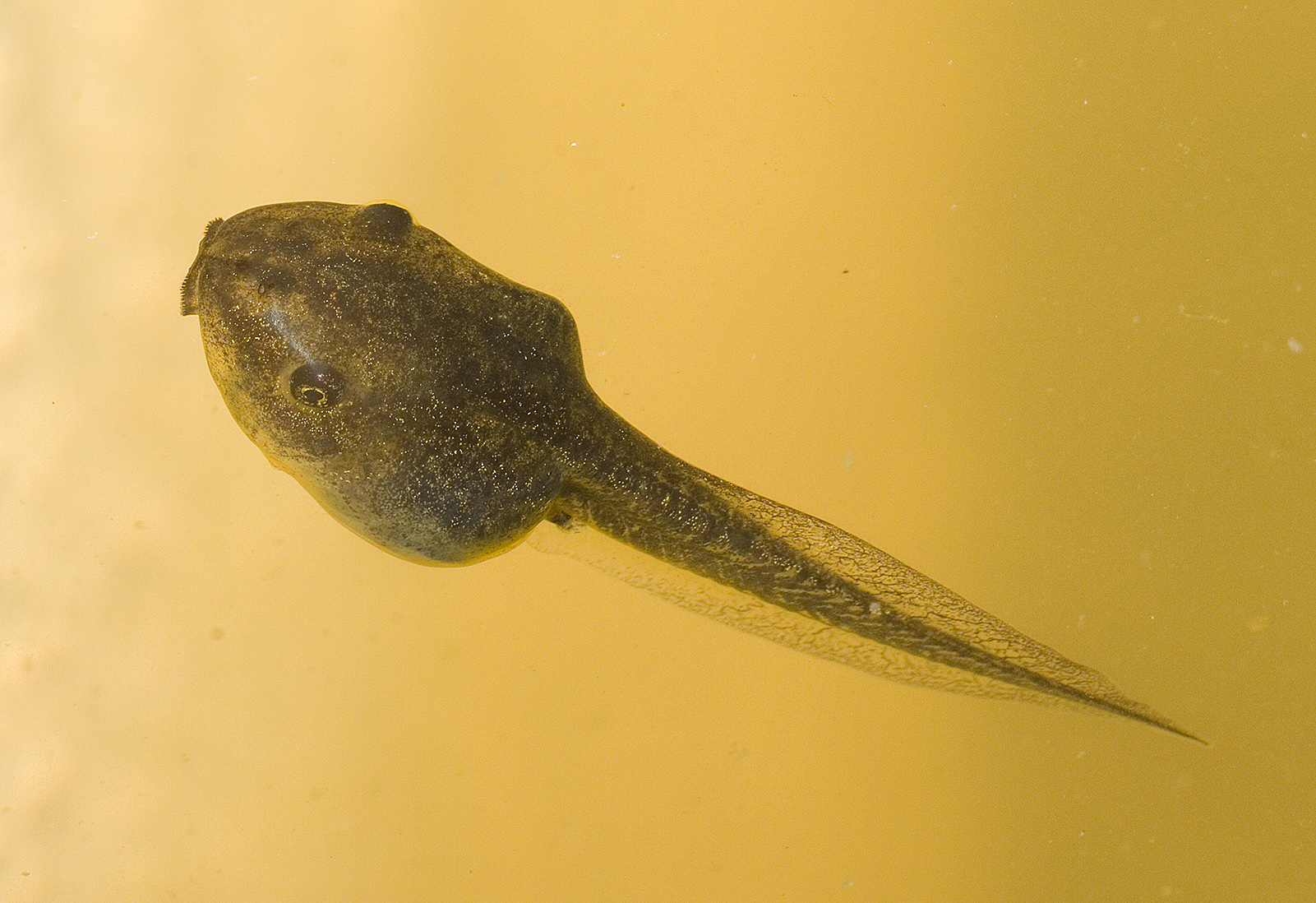 Brown Tree Frog (Litoria ewingii) tadpole. Camera data Camera Canon EOS 400D Lens Canon EF 70-200mm f4L w/ 36mm + 24mm + 12mm extension tubes Flash Softbox Filter Polarizer Focal length 135 mm Aperture f/11 Exposure time 1/160 s Sensivity ISO 400